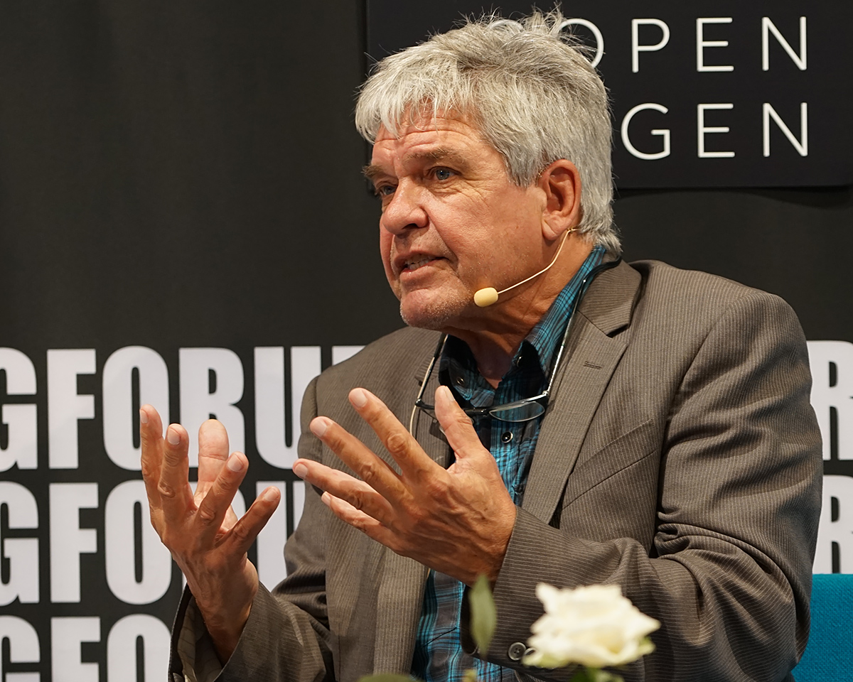 Ib Michael - Danish writer at the Copenhagen Book Fair "BogForum 2015", Copenhagen, Denmark